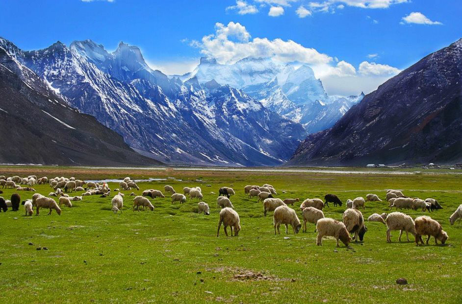 A photo of Rangdum village in Suru Valley